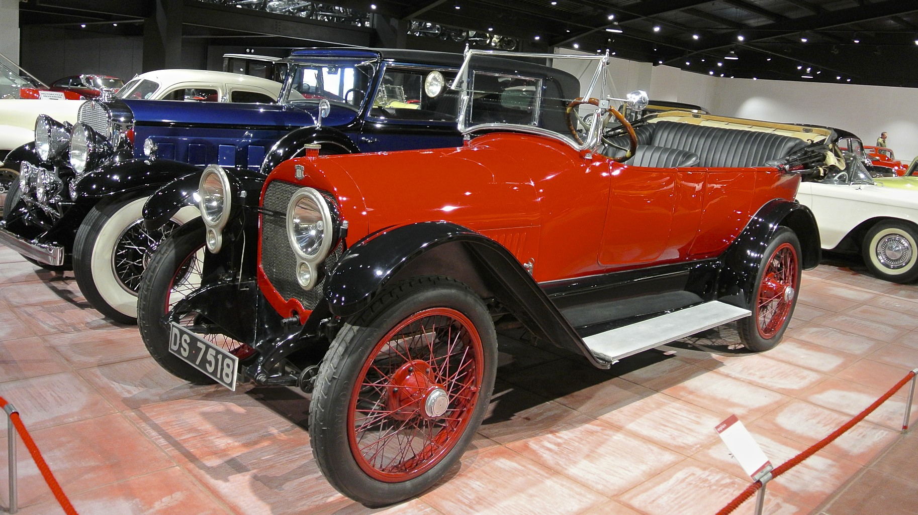 American-built Haynes Touring car. Museum is located at Sparkford near Yeovil, Somerset. A fantastic automobile collection which is bursting at the seams. The museum is building a large extension which will open in 2014 - hopefully there will be more space to see and photograph the individual vehicles.